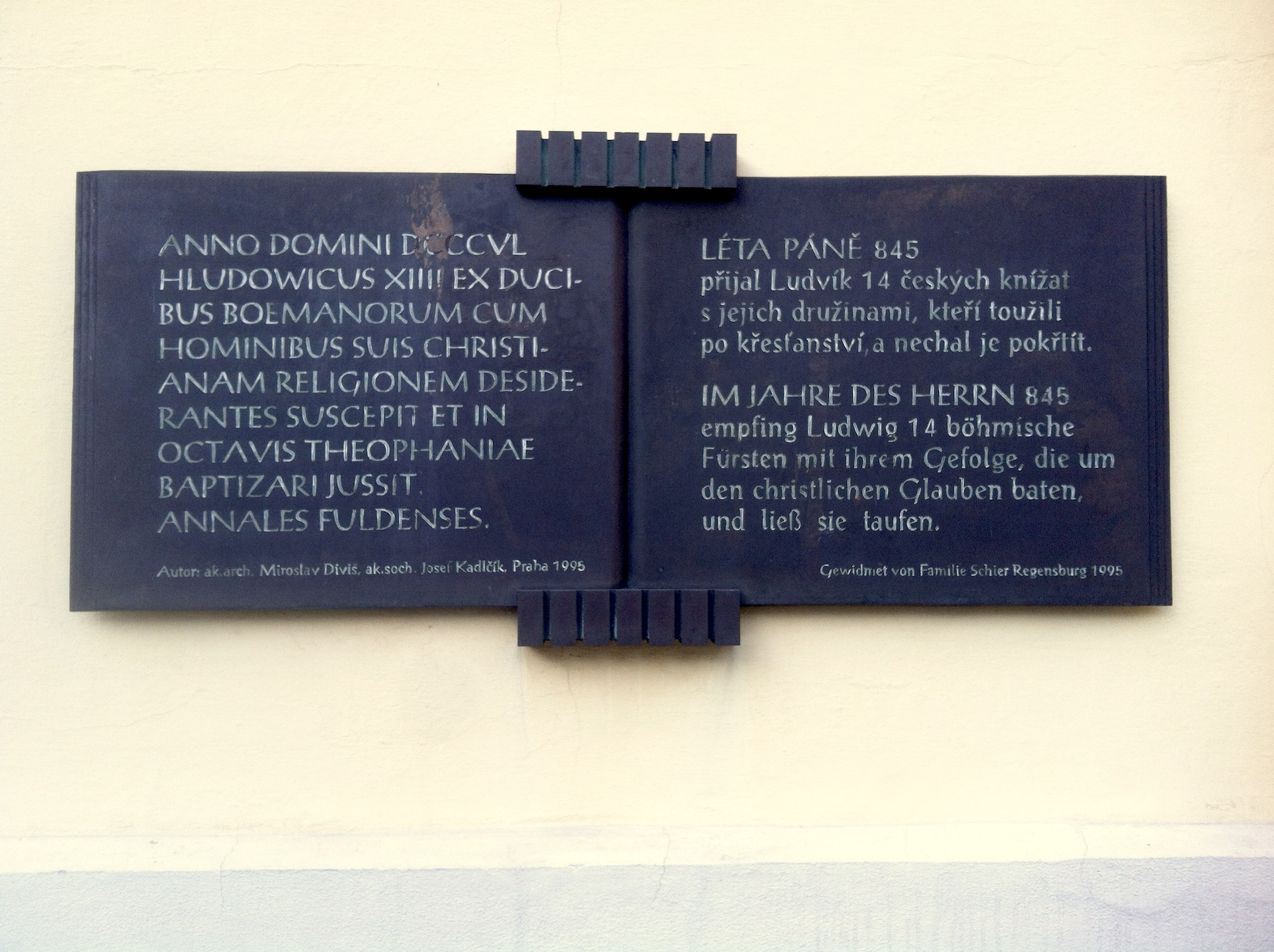 Plaque commemorating baptism of 14 czech princes in 845 in Regensburg.